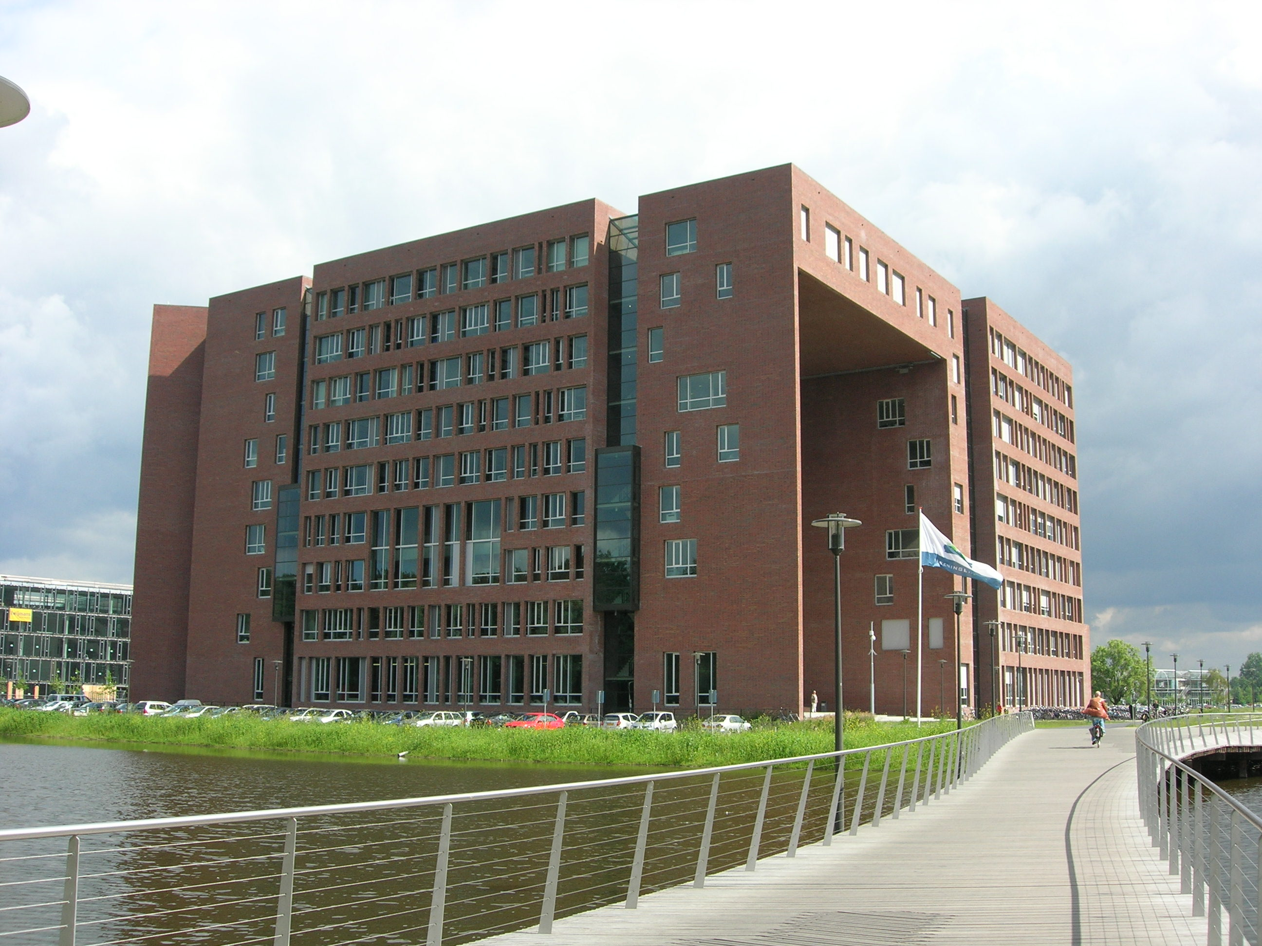 The new main building of the Wageningen University called the Forum building